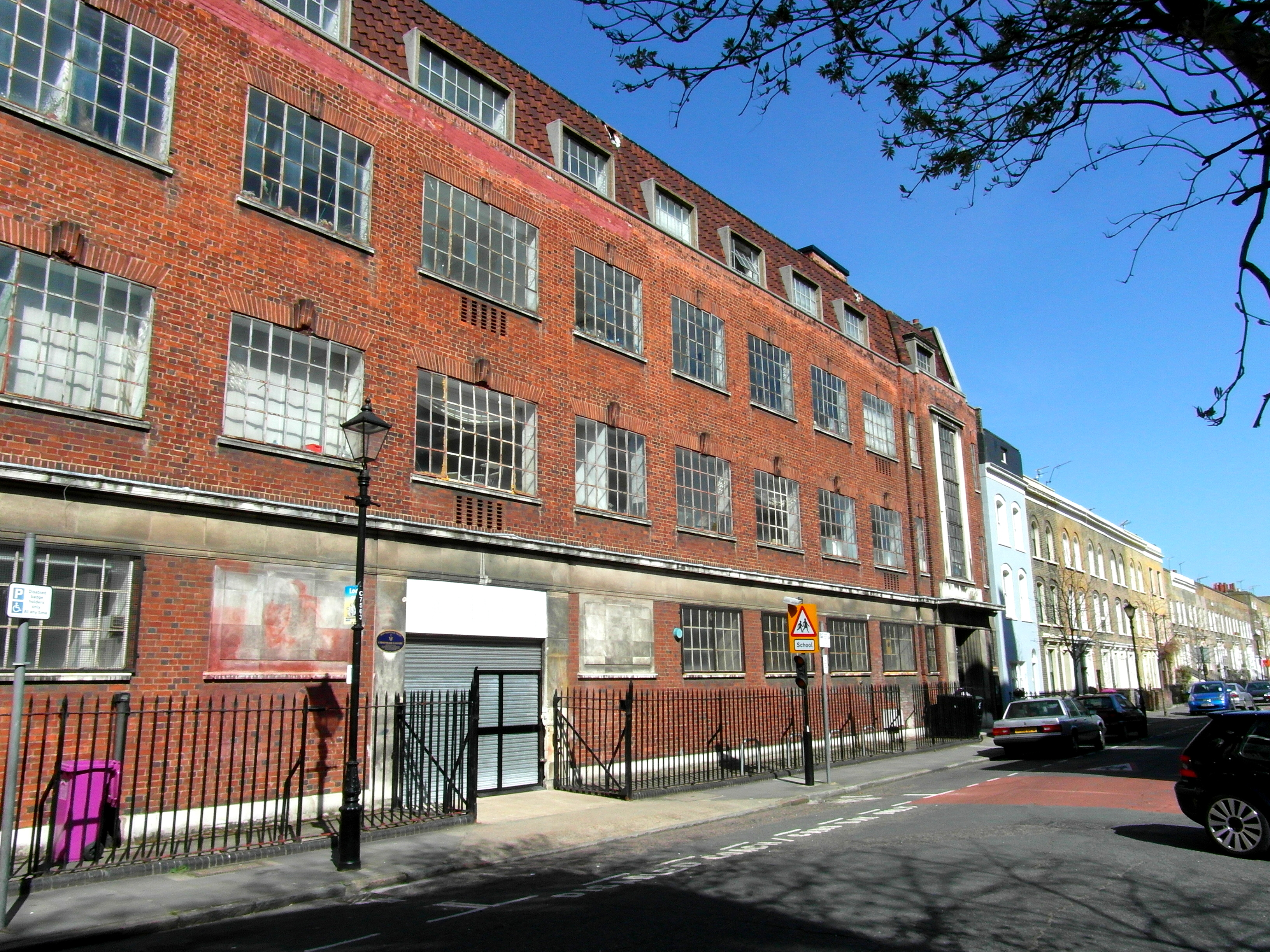 Chisehale Gallery, Chisenhale Arts Place, Chisenhale Road, London Borough of Tower Hamlets, London, United Kingdom